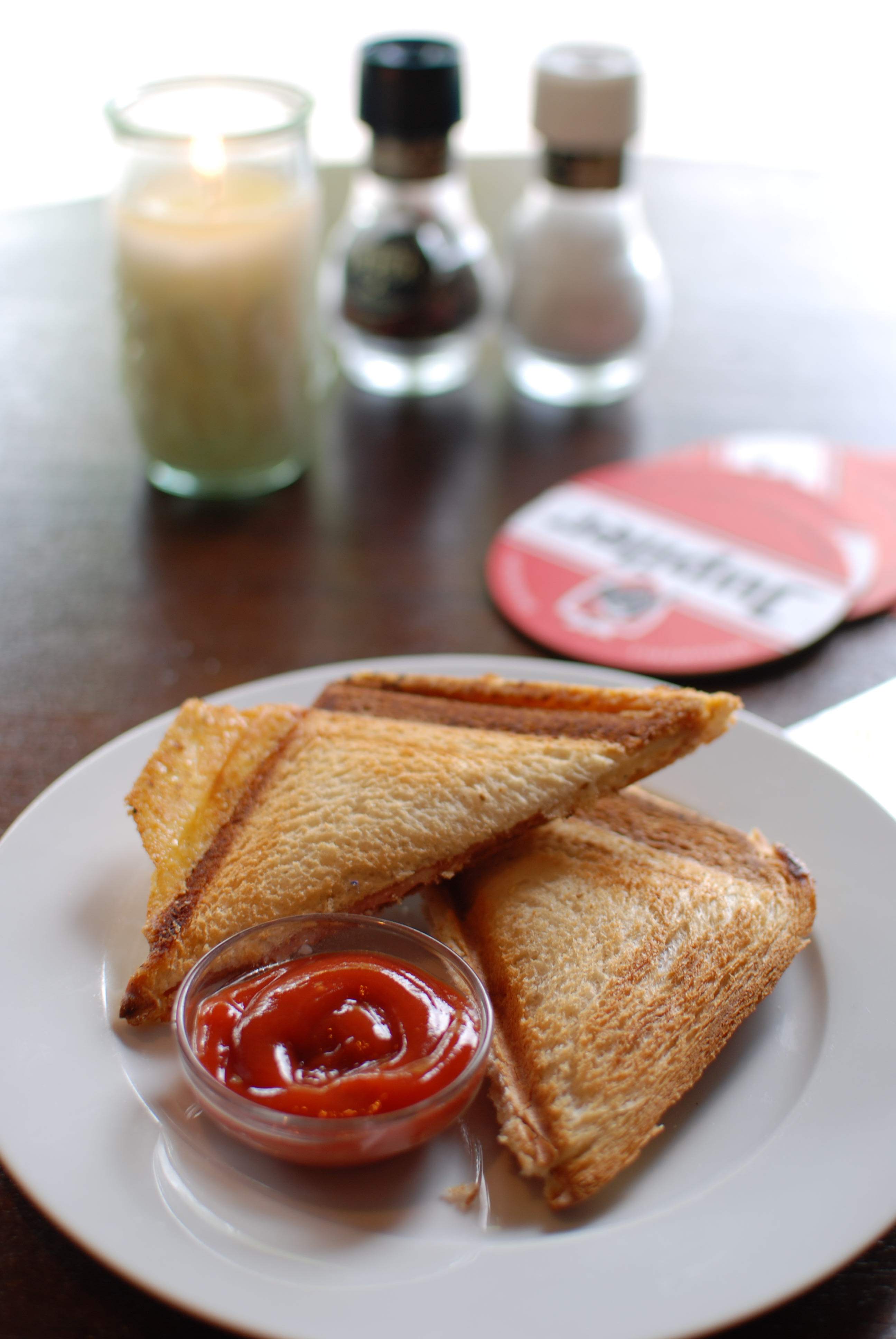 A "ham kaas tosti" or "tosti ham en kaas": a toastie with ham and cheese (grilled ham and cheese sandwich), here with tomato ketchup on the side, is a standard snack in many pubs and cafeterias in the Netherlands. This picture was made in Amsterdam at a canal-side pub/restaurant.